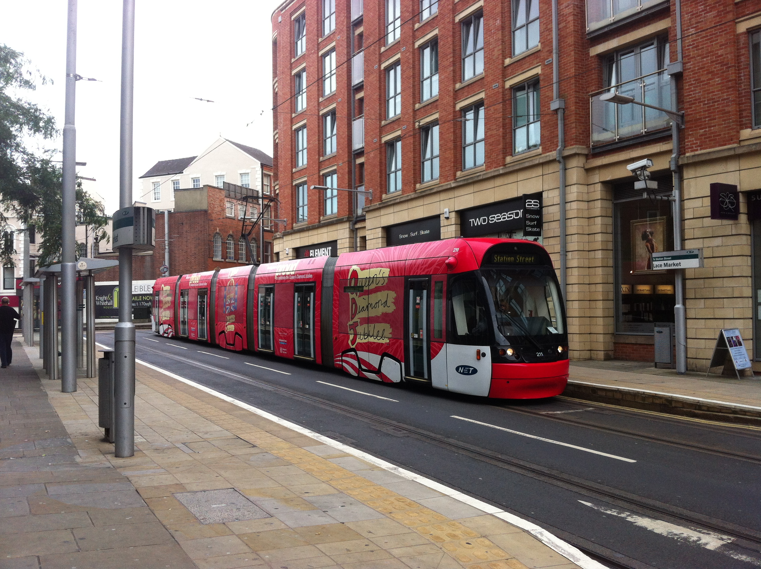 Diamond Jubilee tram at Lace Market tramstop. A tram decorated for the Diamond Jubilee of Queen Elizabeth II at the Lace Market tramstop in Nottingham.